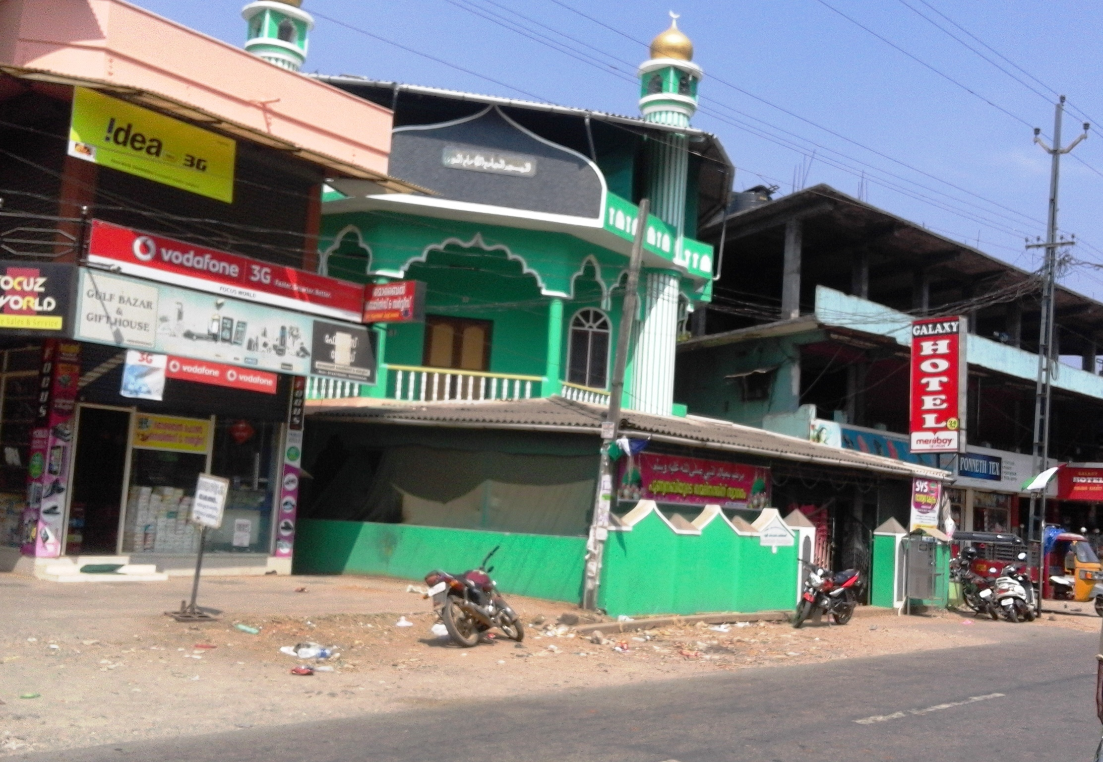 Vazhikkadavu, Nilambur, Malappuram Dt, Kerala, India.